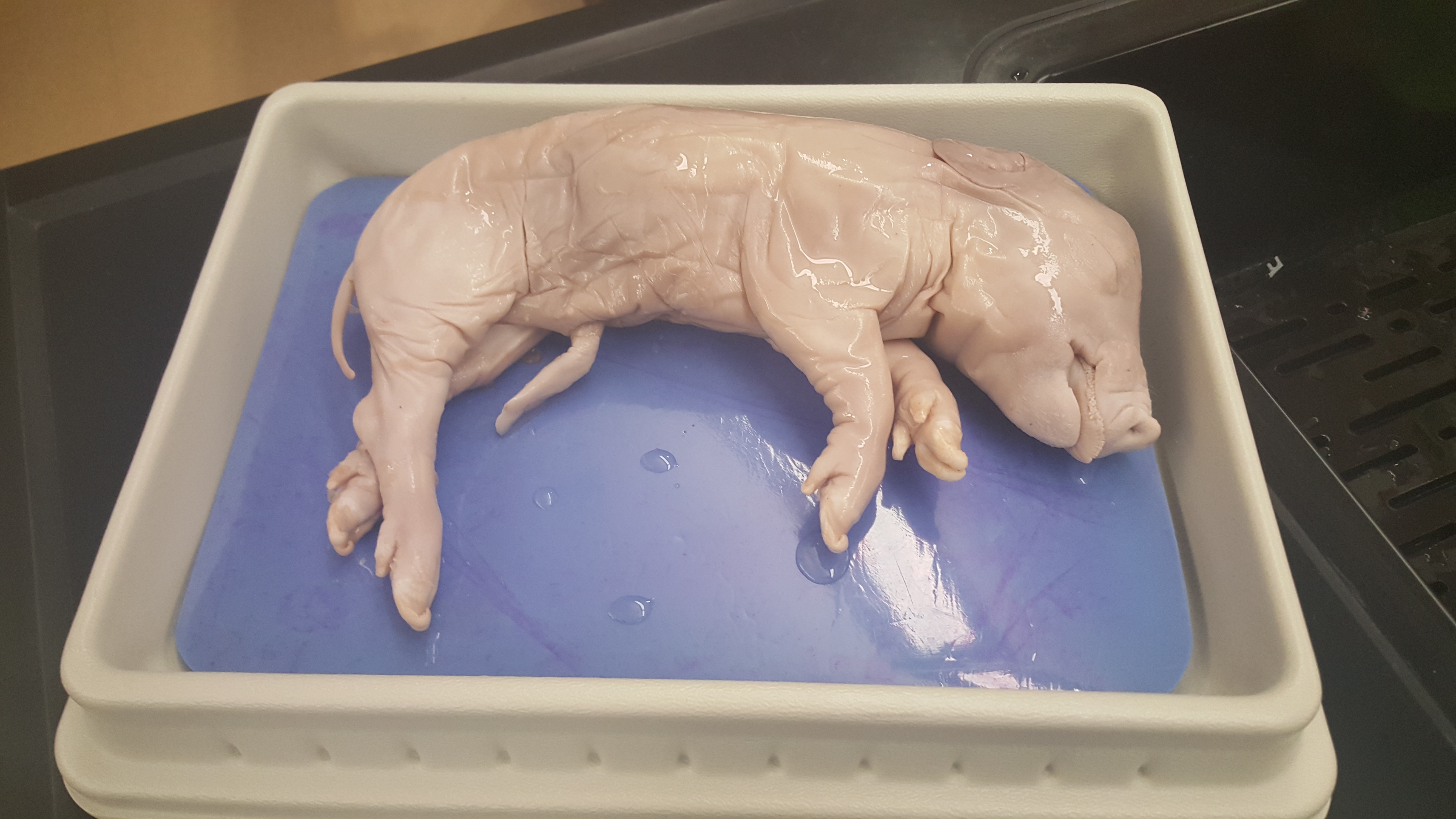 fetal pig in formaldehyde